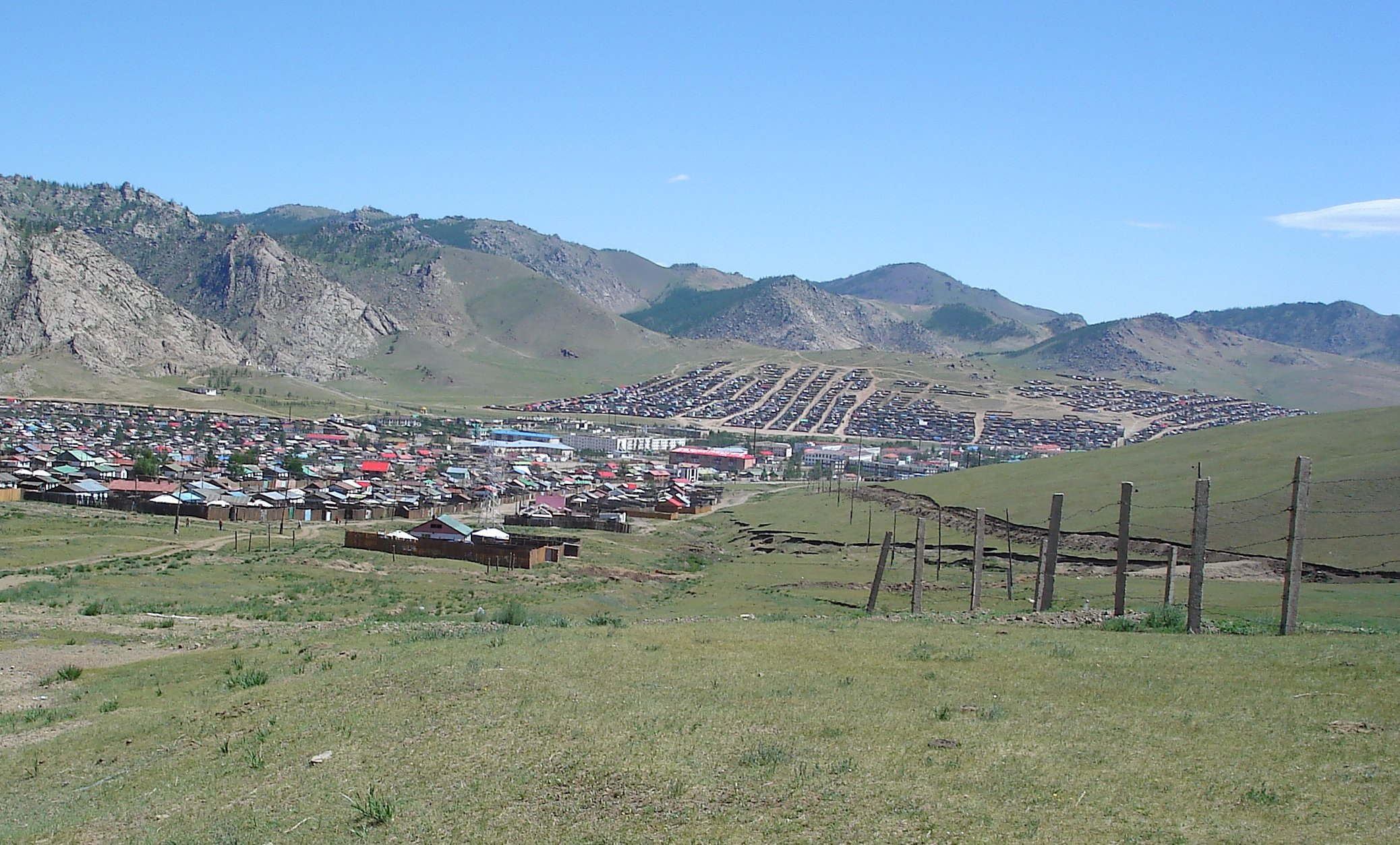 Tsetserleg, capital of Arkhangai aimag (Mongolia)